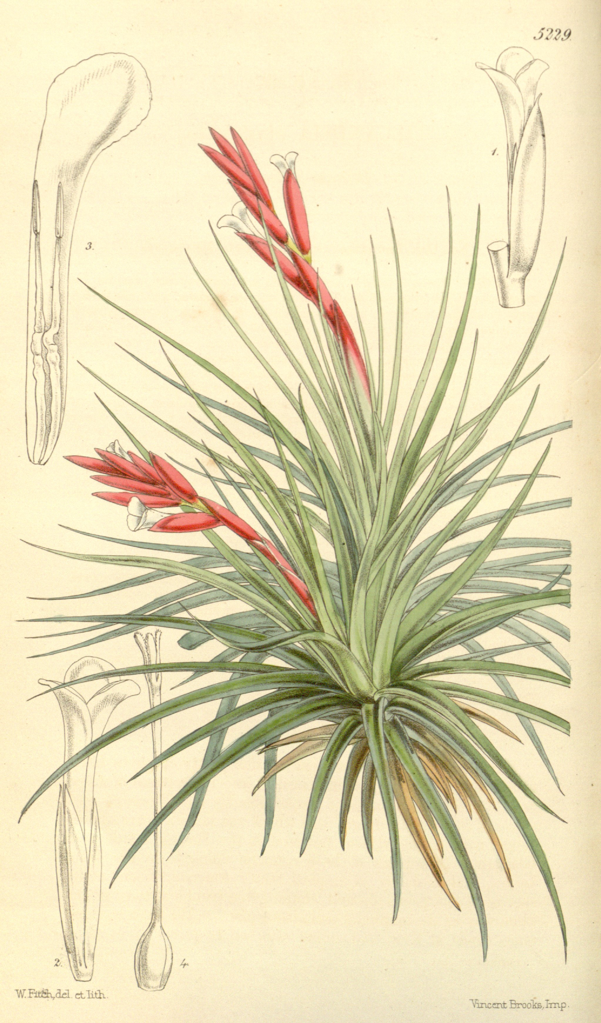 Illustration of Tillandsia tenuifolia var. tenuifolia (as syn. Tillandsia pulchella)